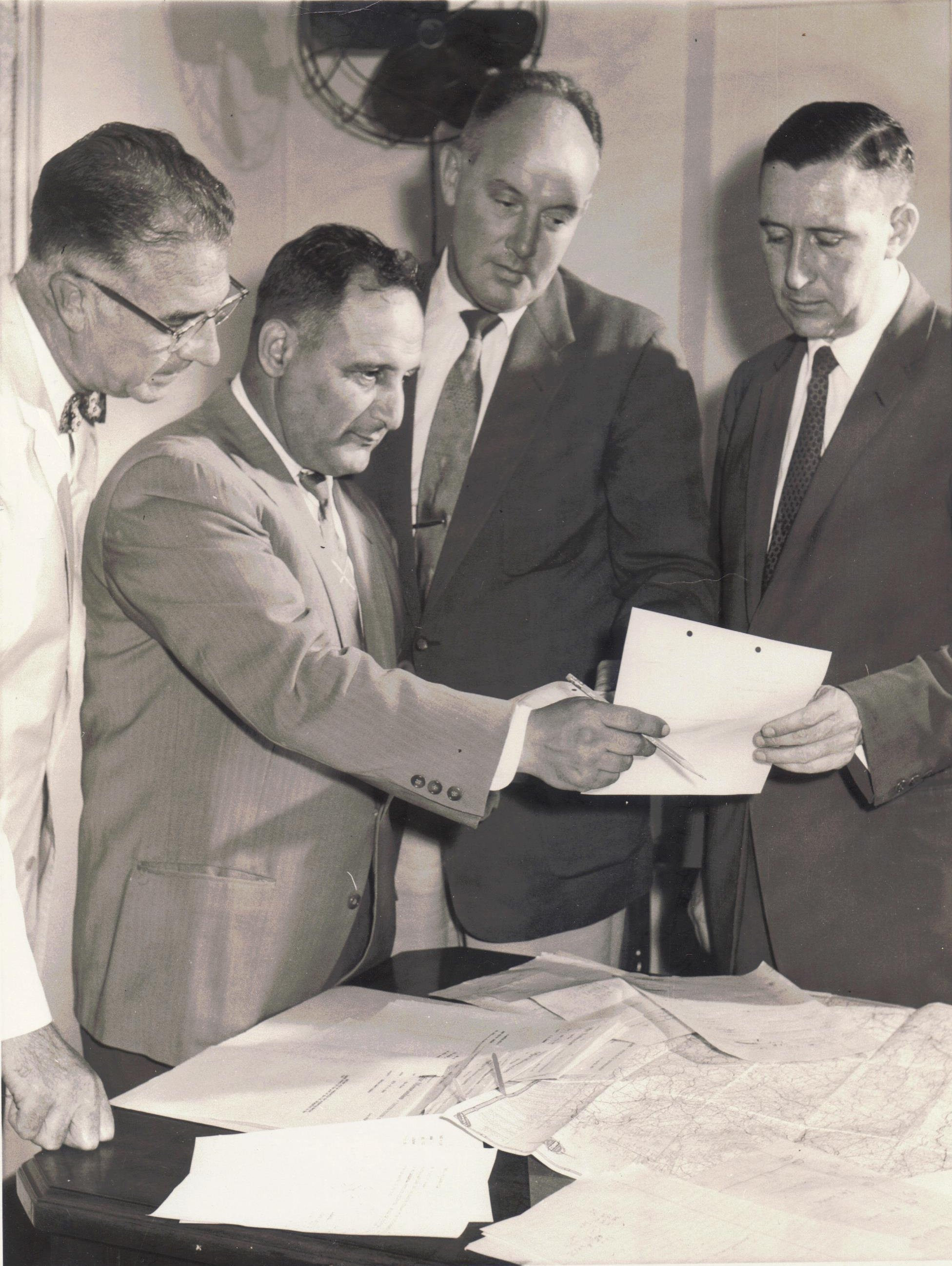 William Lewis Uanna with colleagues at the State Department 1958